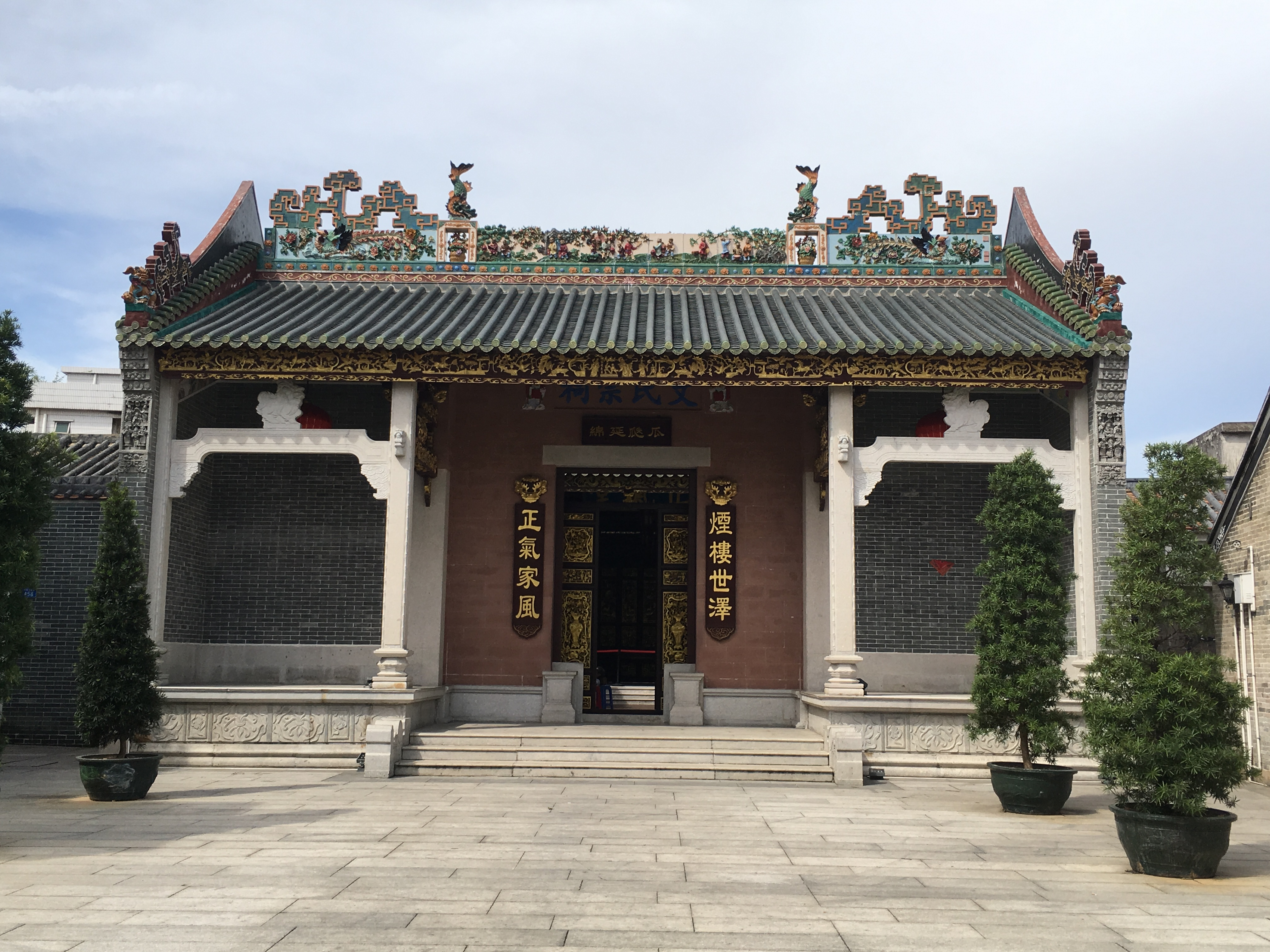 Fuyong, Shenzhen